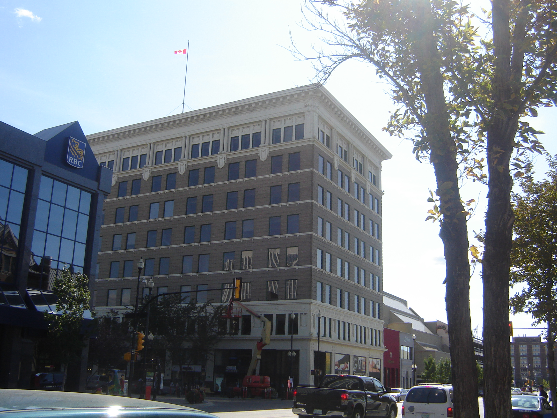 Heritage site in Saskatoon Central Business District Canada building